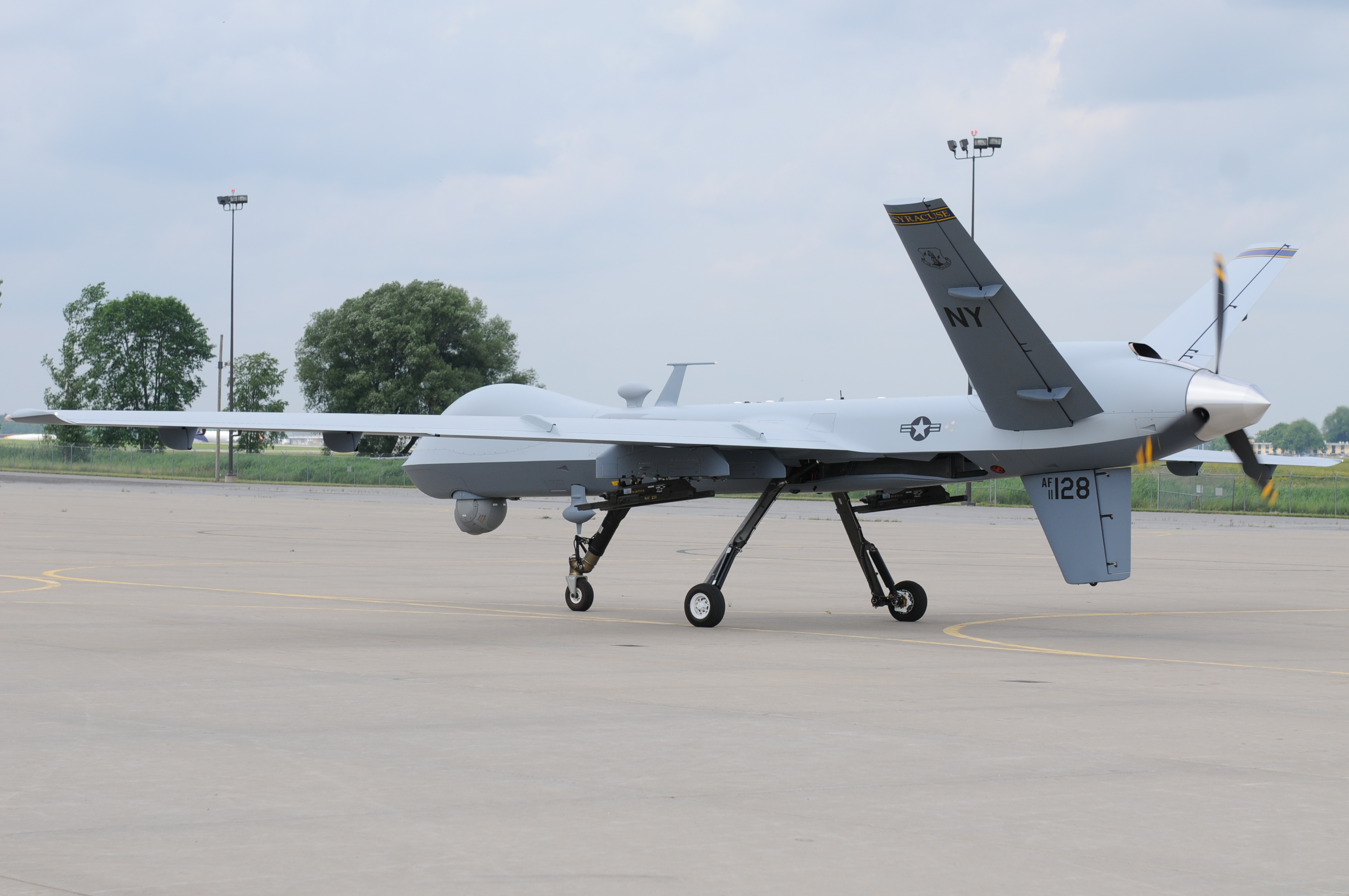 A Syracuse Air National Guard MQ-9 taxis around the upper ramp at Hancock Field Air National Guard Base.